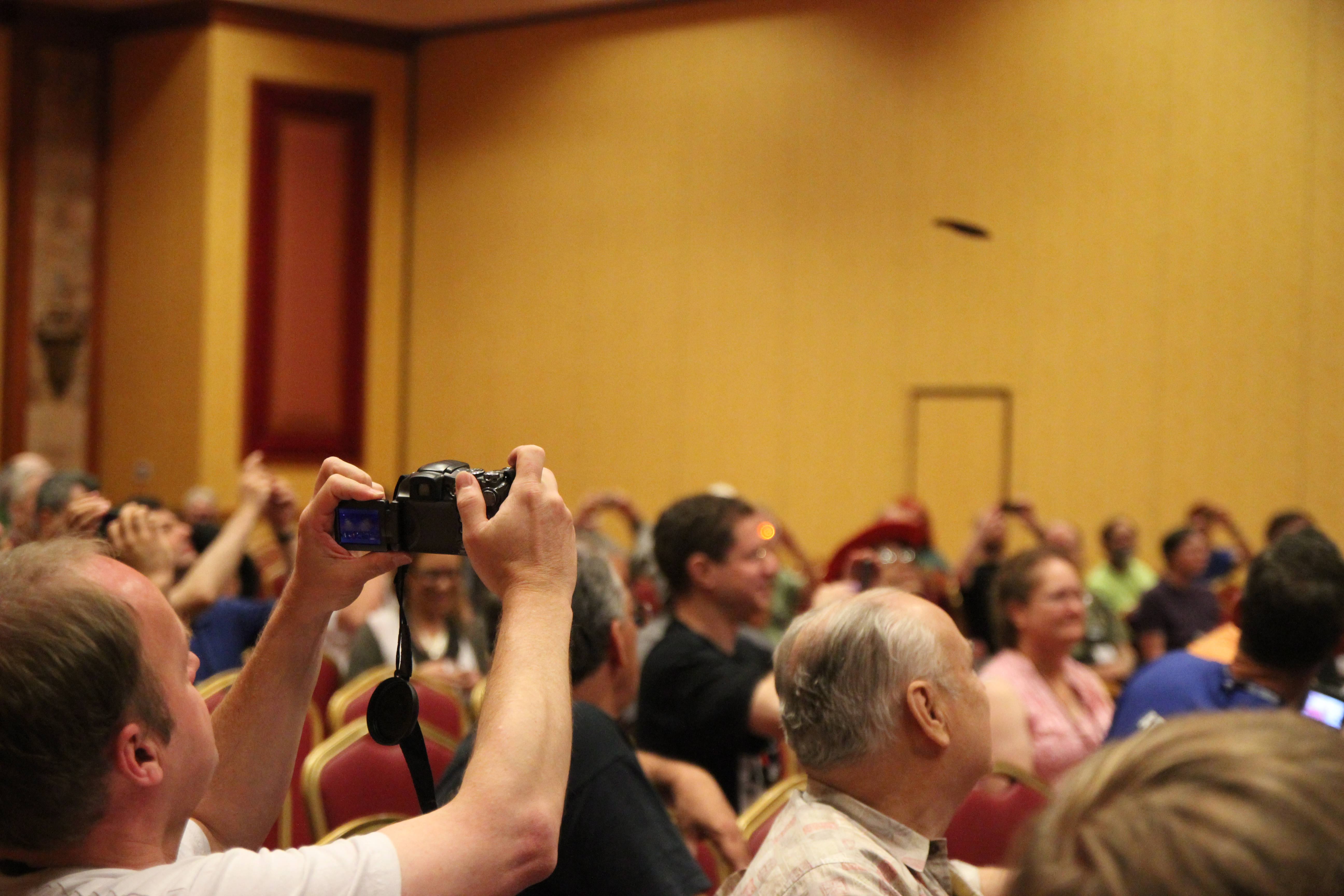 At TAM9 "Making Your Own UFO" workshop. July 14, 2011